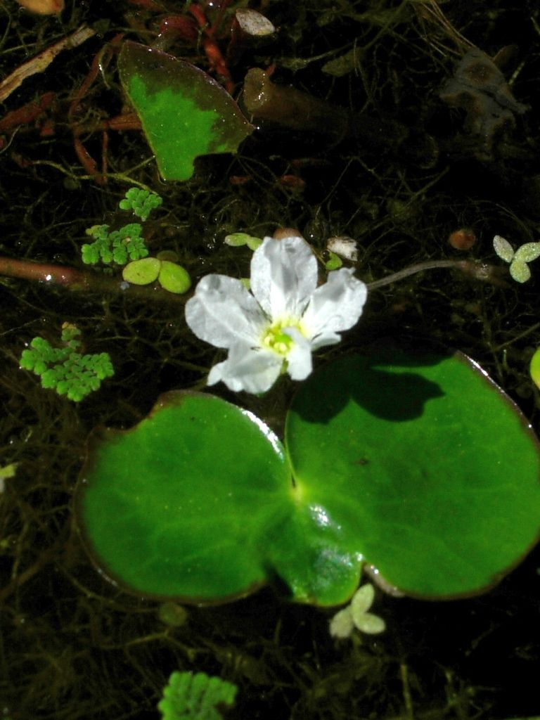 Nymphoides hydrophylla in Myanmar (3 Dec 2008). Credit: Y. Ito.